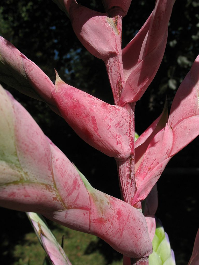 Tillandsia pomacochae, in cultivation at the Botanical Garden of Heidelberg, Germany.